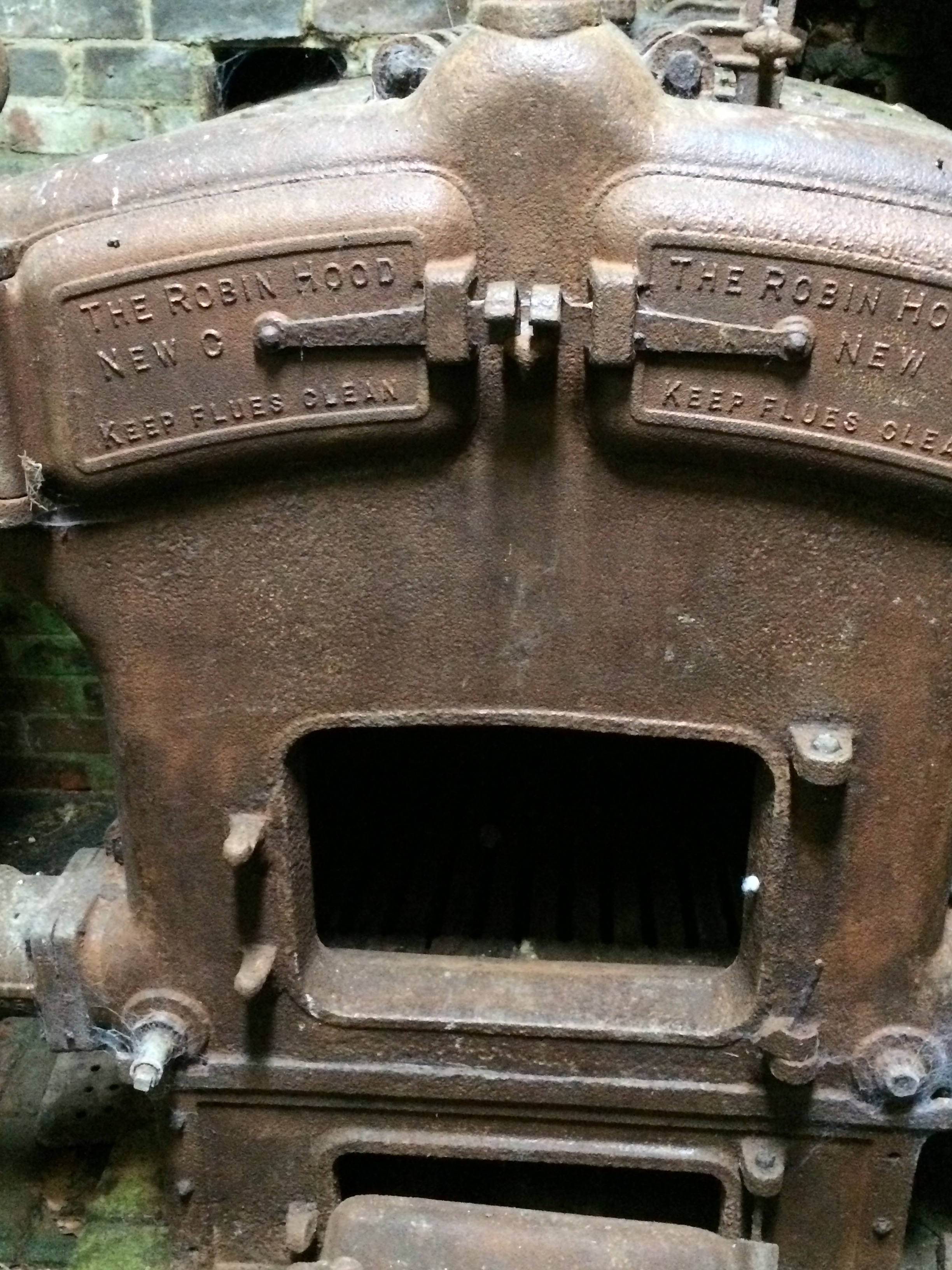 Robin Hood boiler at Calke Abbey, made by the Beeston Boiler Company, Nottinghamshire.